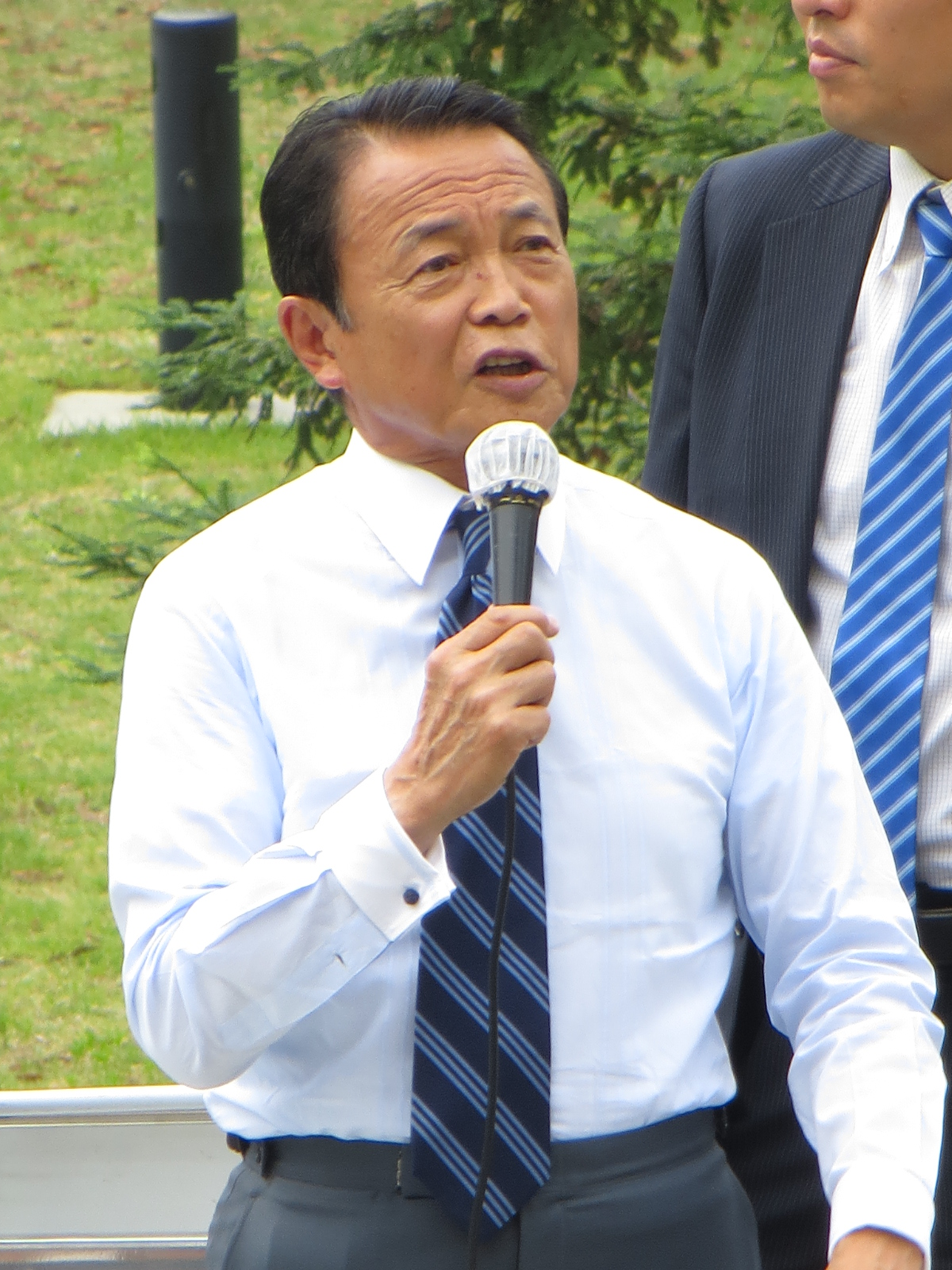 Taro Aso